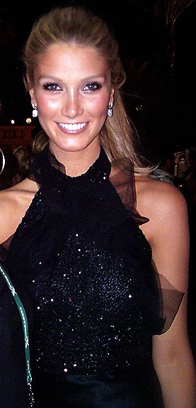 Roba fama